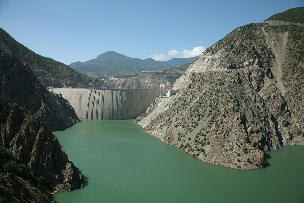 Back Side of Deriner Dam